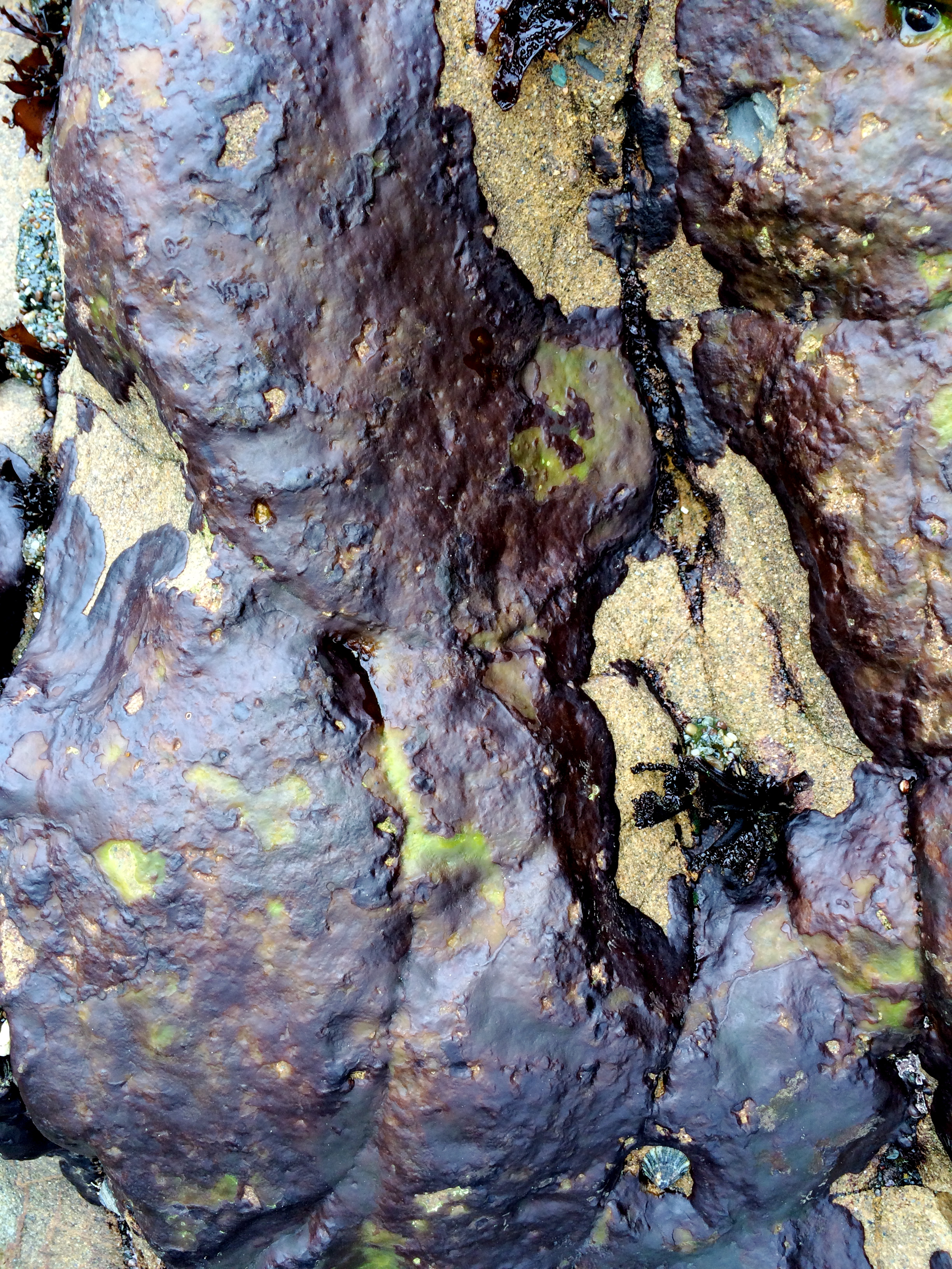 "Tar spot" algae Really does look like just that, and often lives on beach rocks with real tar here on the CC/SLO. Ralfsia pacifica (??), Algaebase